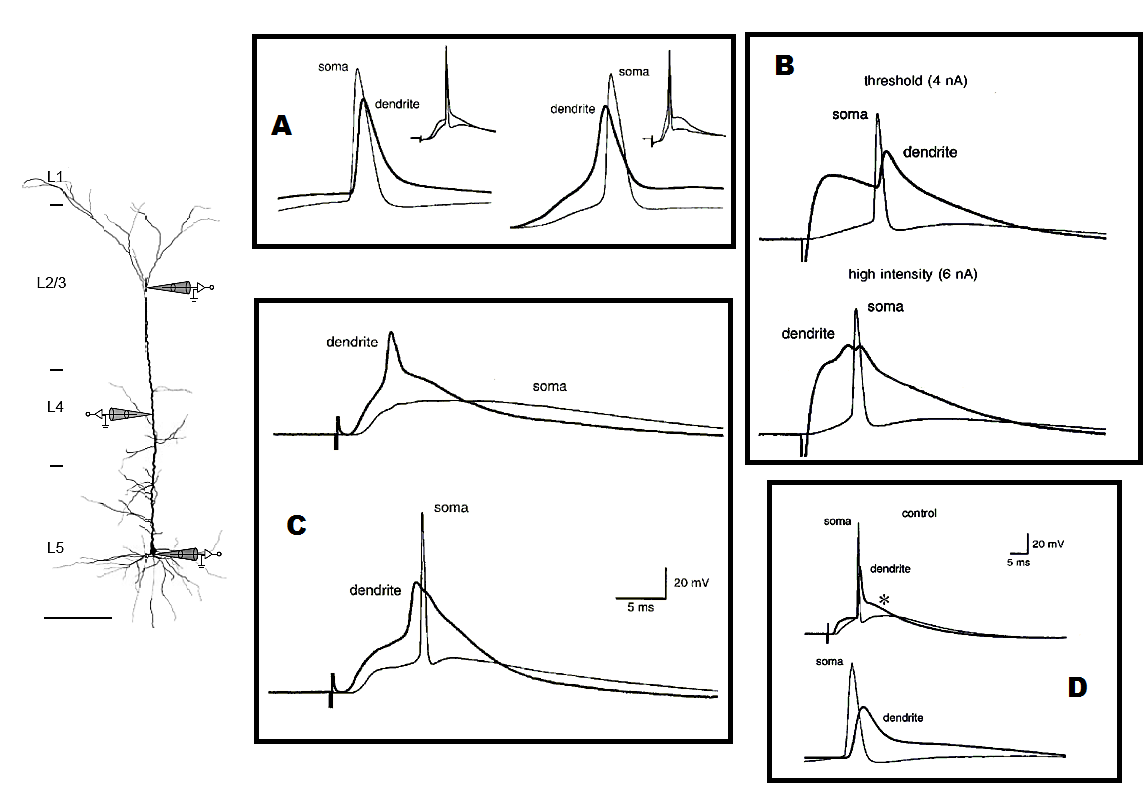 Adapted and modified from Stuart, Schiller and Sakmann, "Action potential initiation and propagation in rat neocortical pyramidal neuron" 1997. A. Action potential initiation during synaptic stimulation at different intensities. B. Action potential initiation by simulated EPSPs. . C. Generation of dendritic electrogenesis in complete and relative isolation of somatic action potentials. D. Calcium electrogenesis associated with back-propagating action potentials.